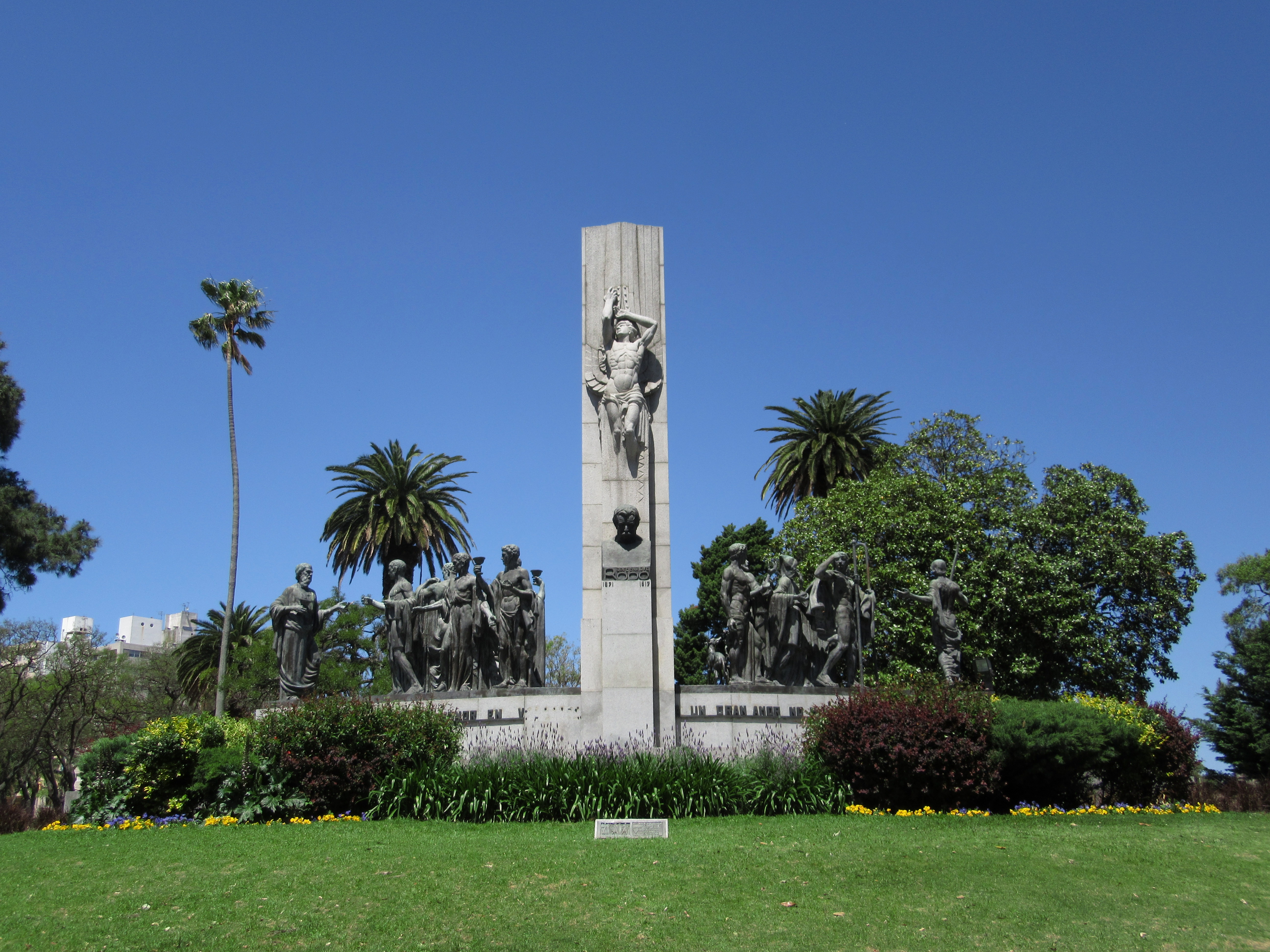 Montevideo